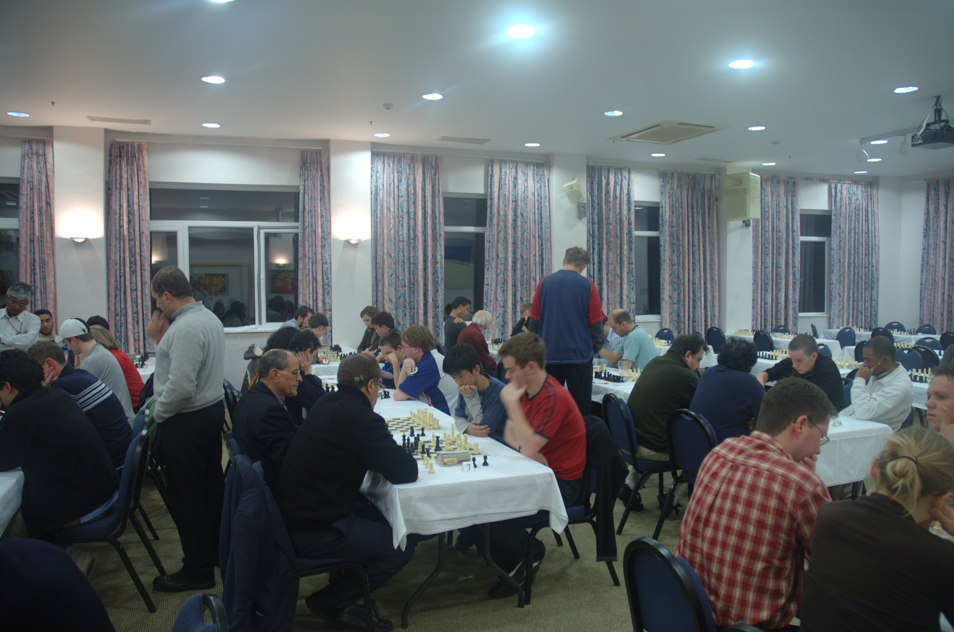 A fun event after main play had finished for the day.